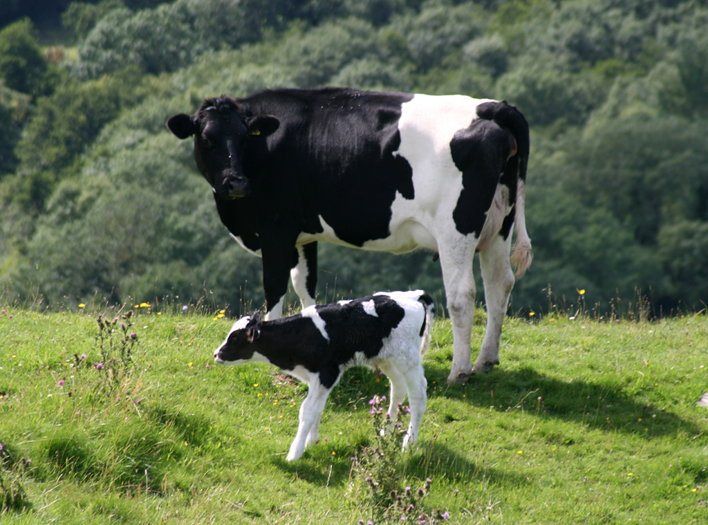 Cow with young calf on Hambledon Hill, Dorset, England, UK.